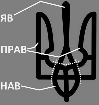 Sign of the Ukrainian neo-pagans (originally - a generic sign of the Rurikovichi dynasty), symbolizing (in their view) the three levels of the universe